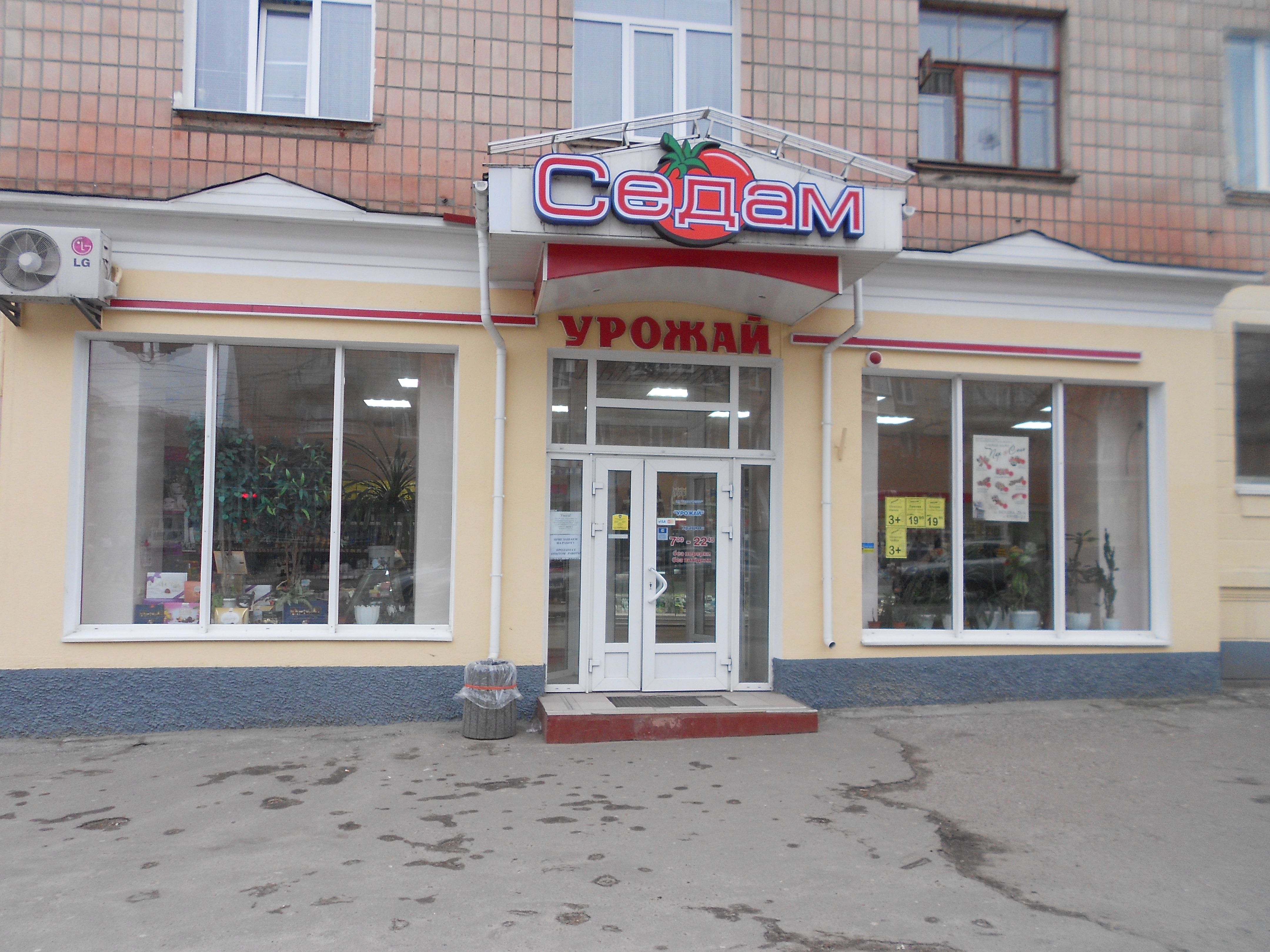 supermarket "Sedam", #91 Peremohy Avenue, Chernihiv, Ukraine